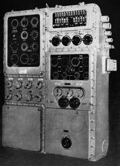 US Navy Mk III Torpedo Data Computer, the standard US Navy torpedo fire control computer during WWII. Source: Submarine Sonar Operator's Manual, Navpers 16167.